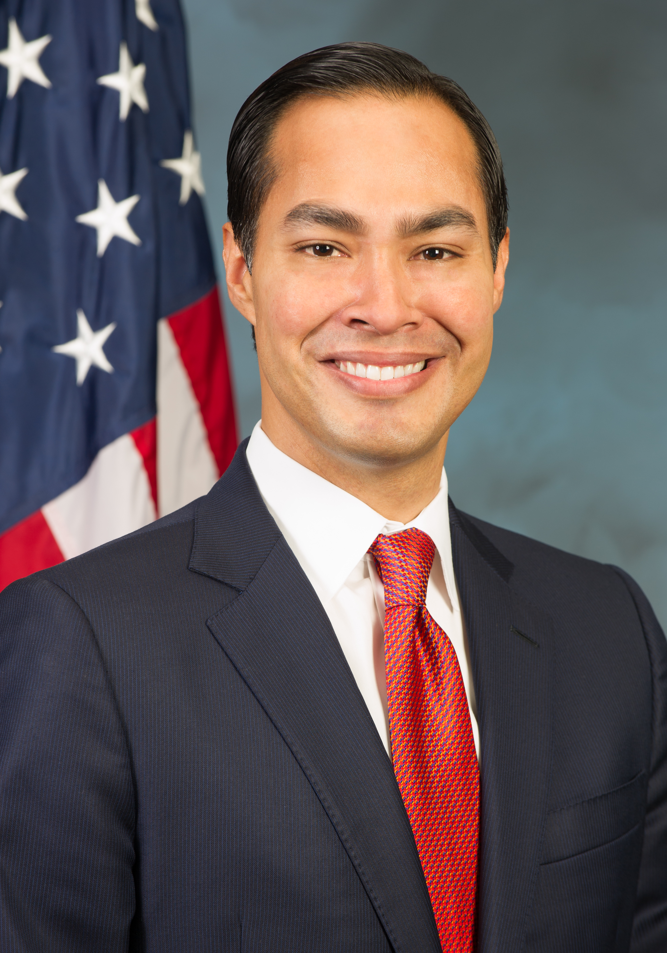 Julián Castro's Official HUD Portrait